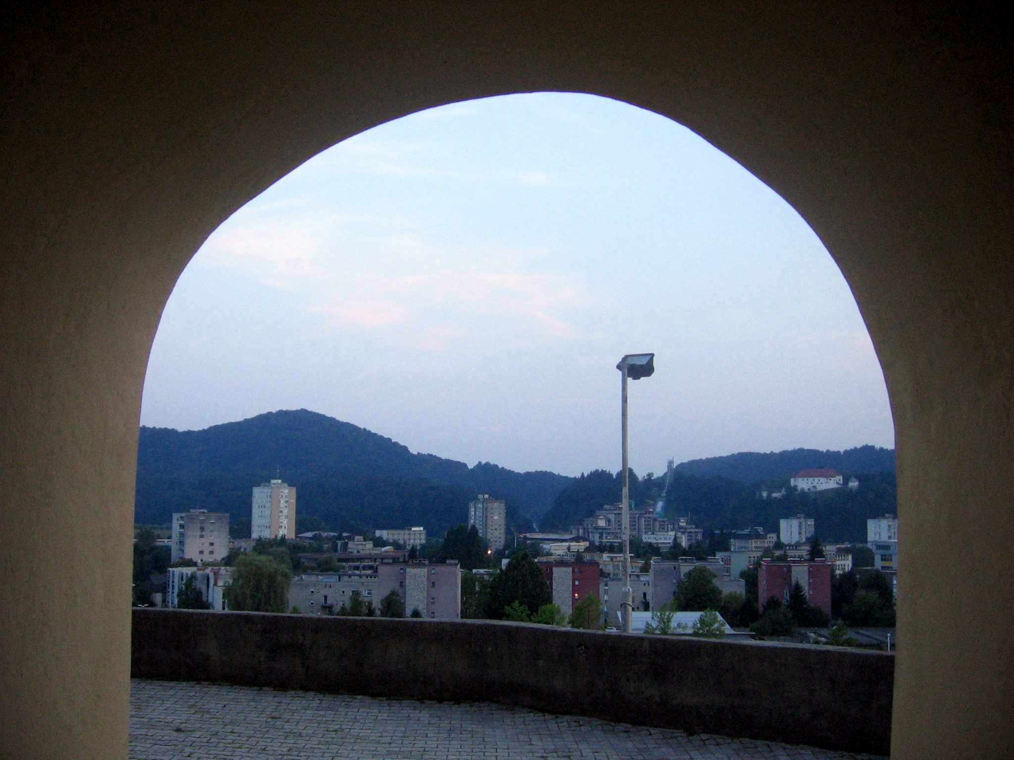 view on center of Velenje with Castle from church of St.Martin in Velenje